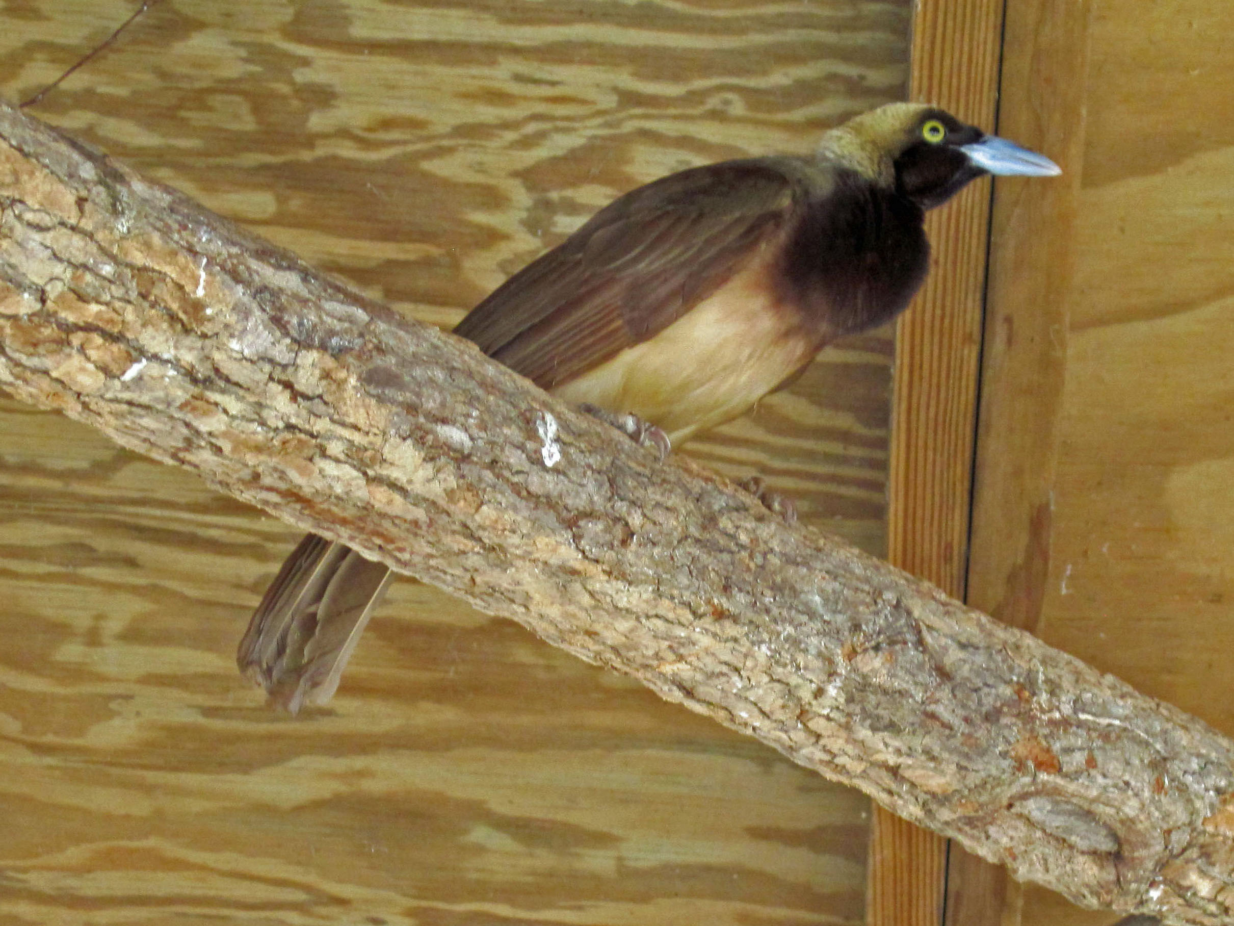 Raggiana Bird-of-paradise (Paradisaea raggiana) - Sylvan Heights Waterfowl Park, North Carolina.